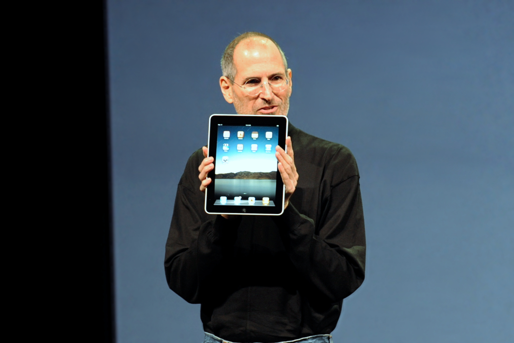 Steve Jobs while introducing the iPad in San Francisco on 27th January 2010. Version without watermark and with reduced noise in the background.